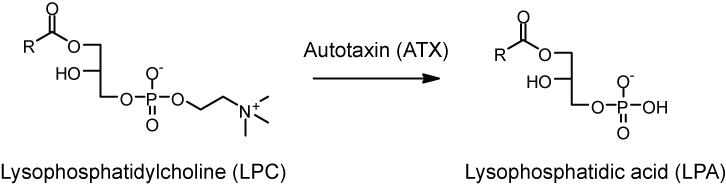 Self made in Chemdraw/Illustrator.